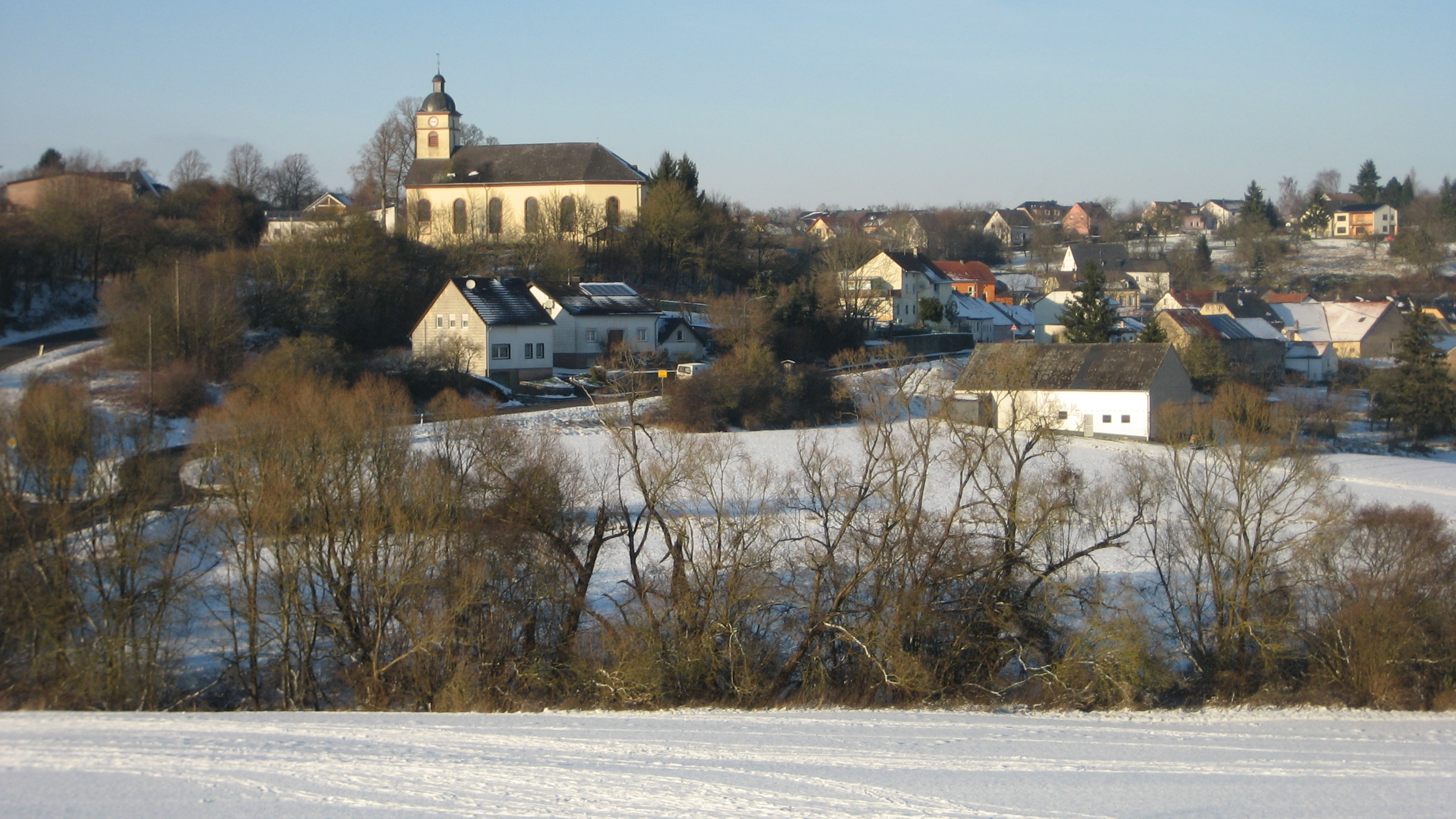 A picture from Sülm